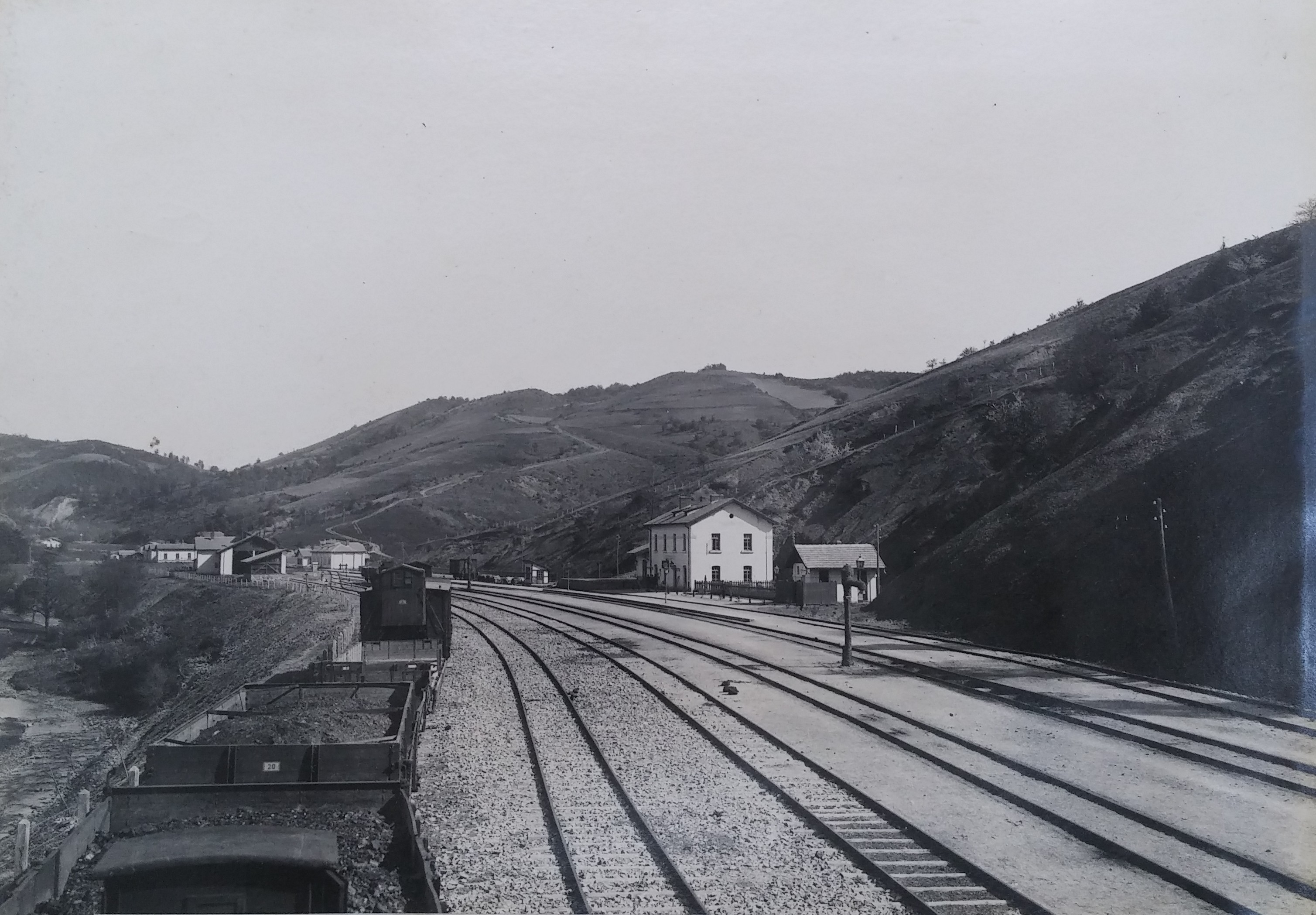 Construction of the railway line Veliko Tarnovo - Tryavna - Borushtitsa. Borushtitsa station.